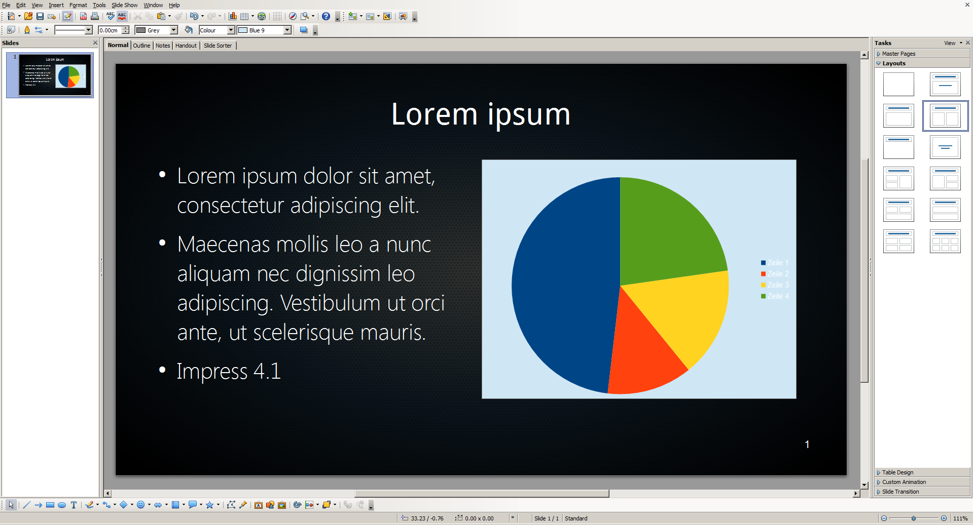 screenshot of oo impress 4.1